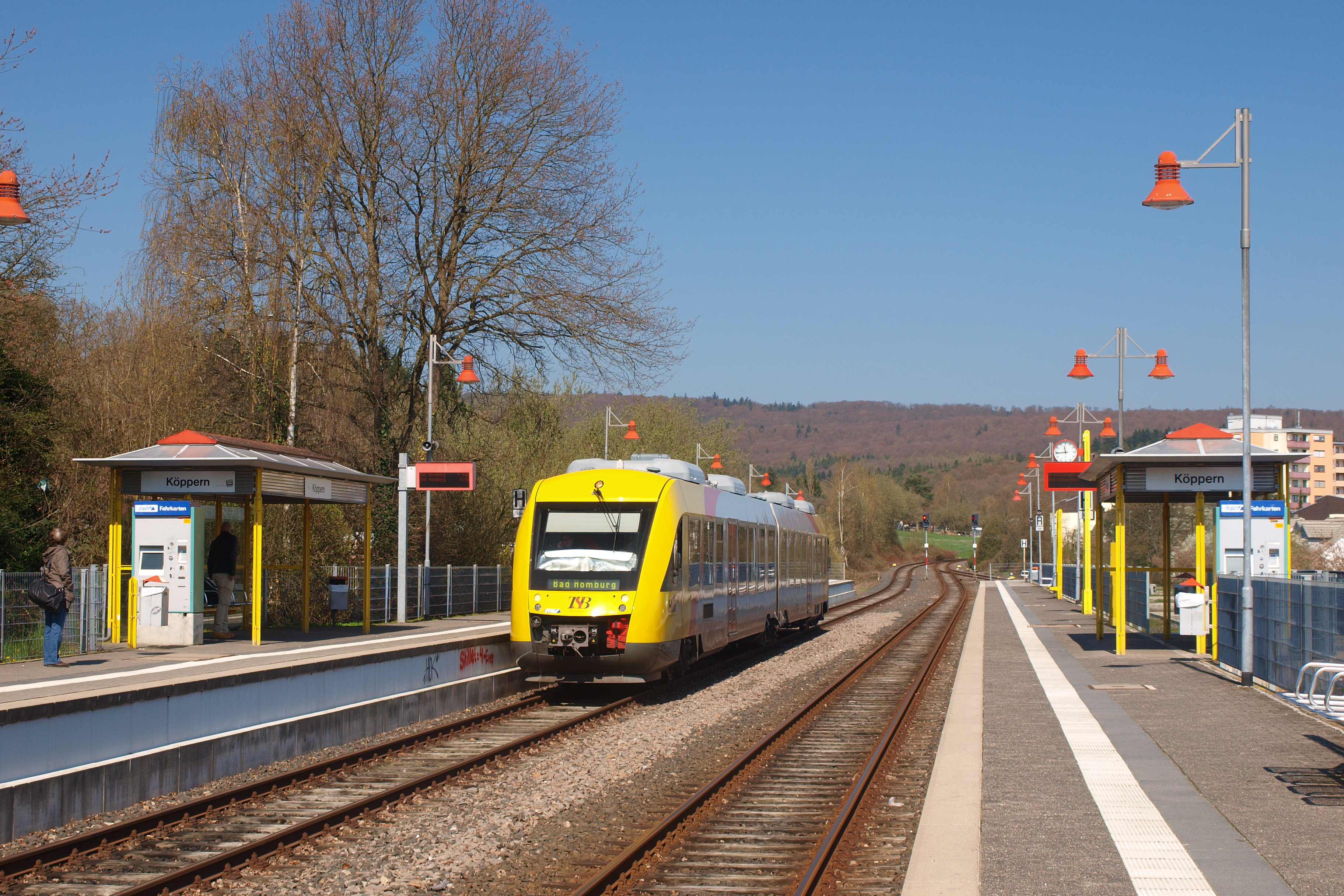 Station Friedrichsdorf-Köppern at the Taunusbahn. A train from Brandoberndorf to Bad Homburg, consisting of one LINT 41/H, hast just arrived and waits to pass another train into the opposite direction. Notice the station equipment at S-Train level with high platforms and destination displays.